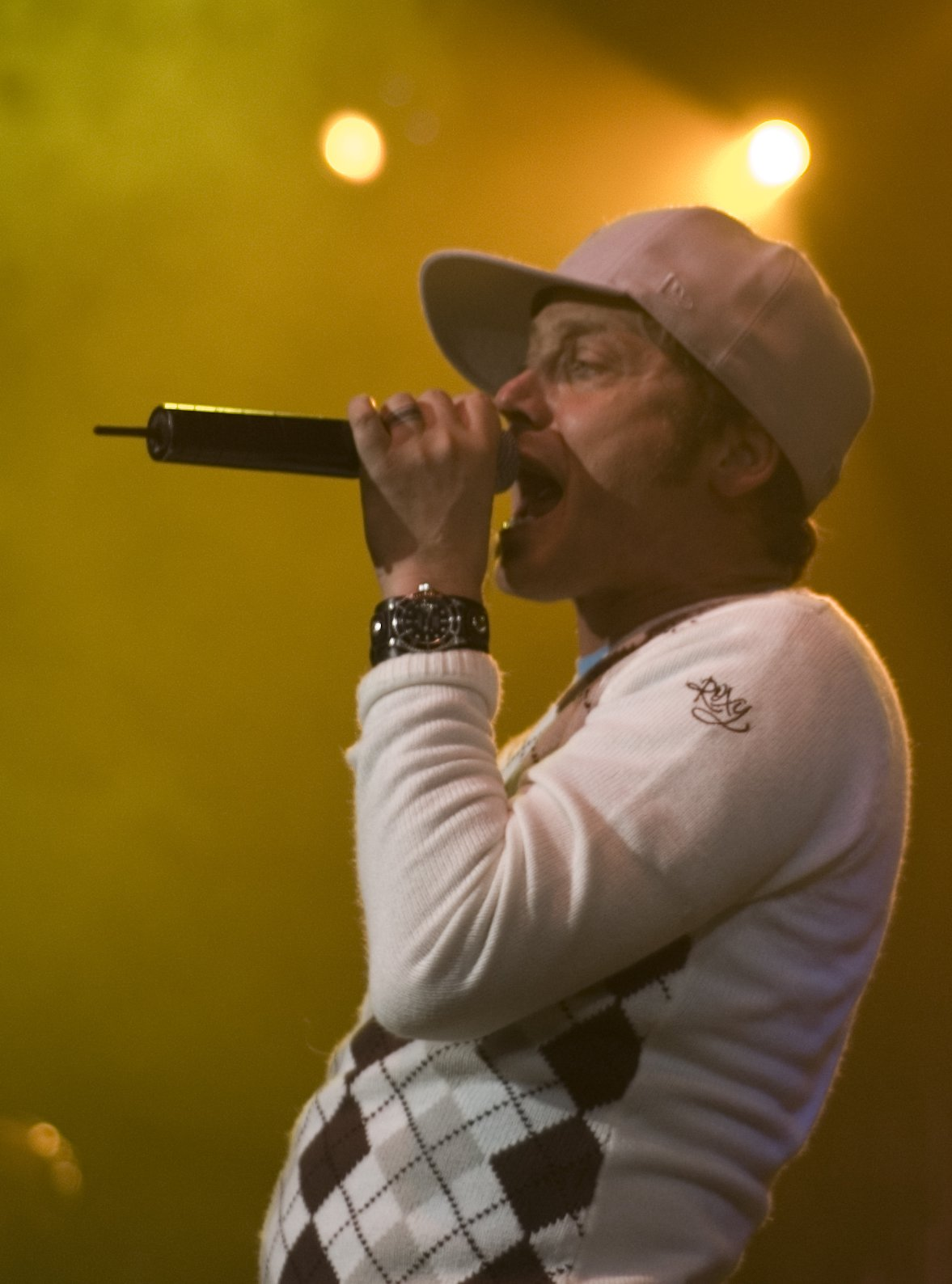 Toby Mac